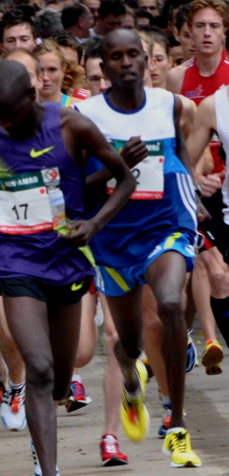 Start of the 2010 Utrecht Singelloop - Boniface Kiriu (17) next to Sammy Kitwara (2)